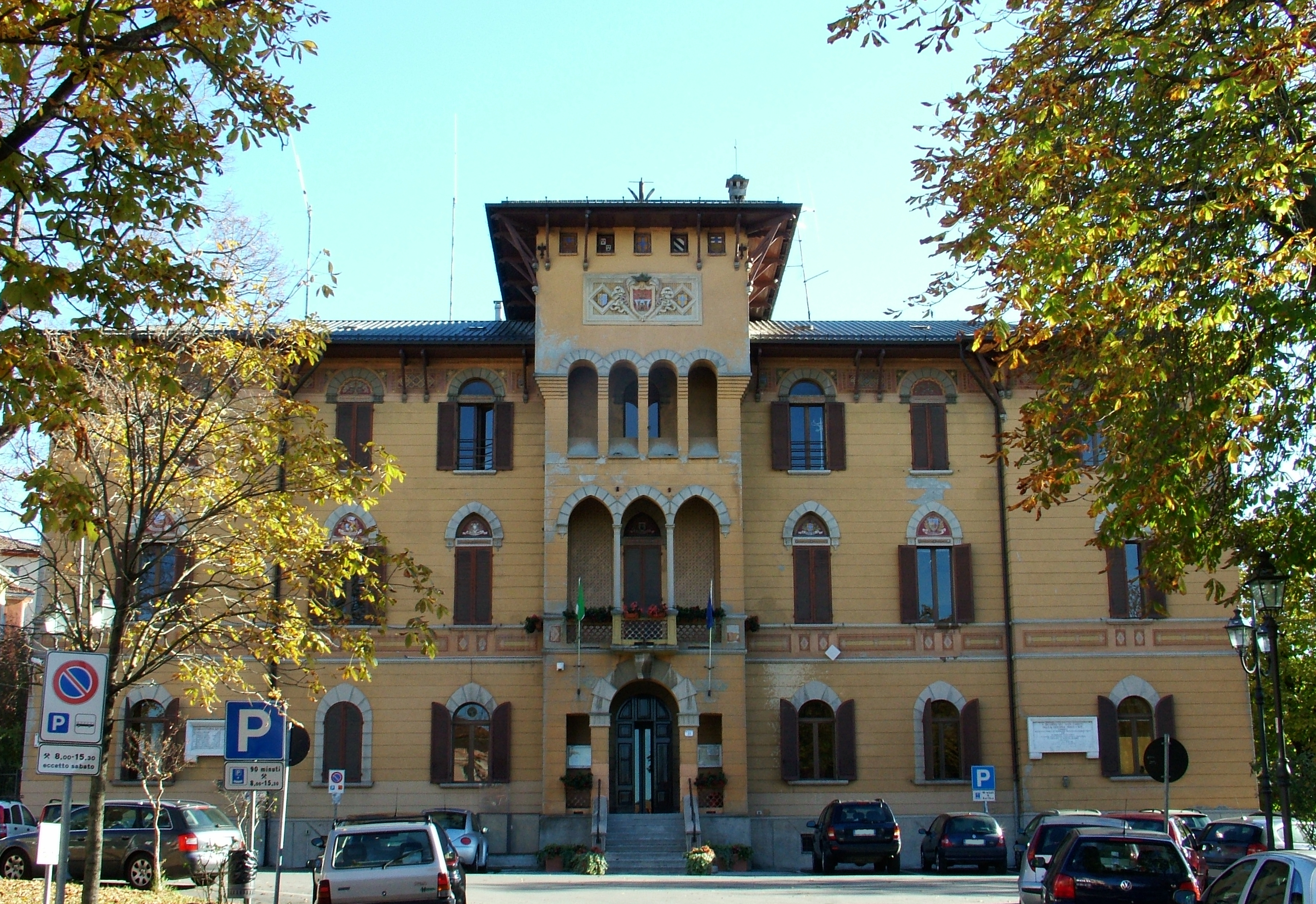 Italy, province of Parma, municipality of Fornovo di Taro, the Town Hall.